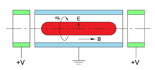 A schematic design of a PM trap. Charged particles of a single sign of charge are confined in a vacuum inside an electrode structure consisting of a stack of hollow, metal cylinders. A uniform axial magnetic field is applied to inhibit positron motion radially, and voltages are imposed on the end electrodes to prevent particle loss in the magnetic field direction. This is similar to the arrangement in a Penning trap, but with an extended confinement electrode to trap large numbers of particles (e.g., N ≥ 1010).